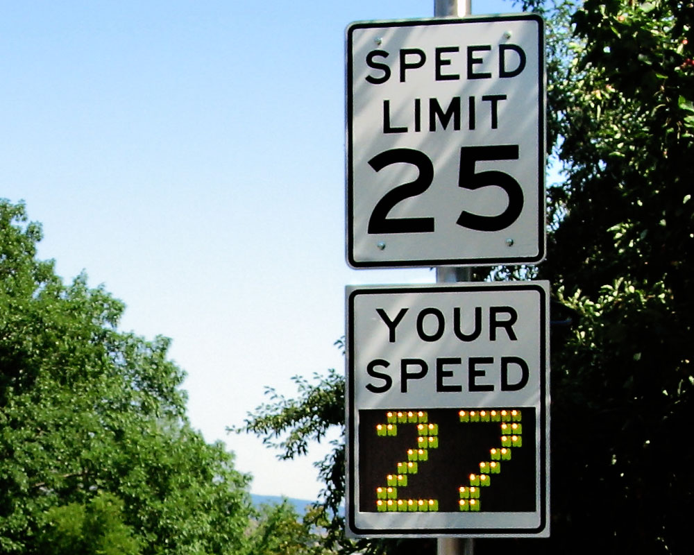 Close-up of a radar-based speed feedback sign, with the recorded speed over the limit. Northbound sign on 9th Street, Boulder, Colorado, United States. Near the junction with Cascade Avenue.